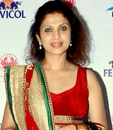 Varsha Usgaonkar at Shaina NC's preview for Pidilite show